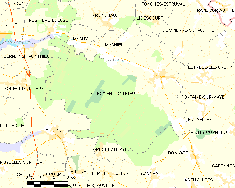 Map of French municipality Crécy-en-Ponthieu